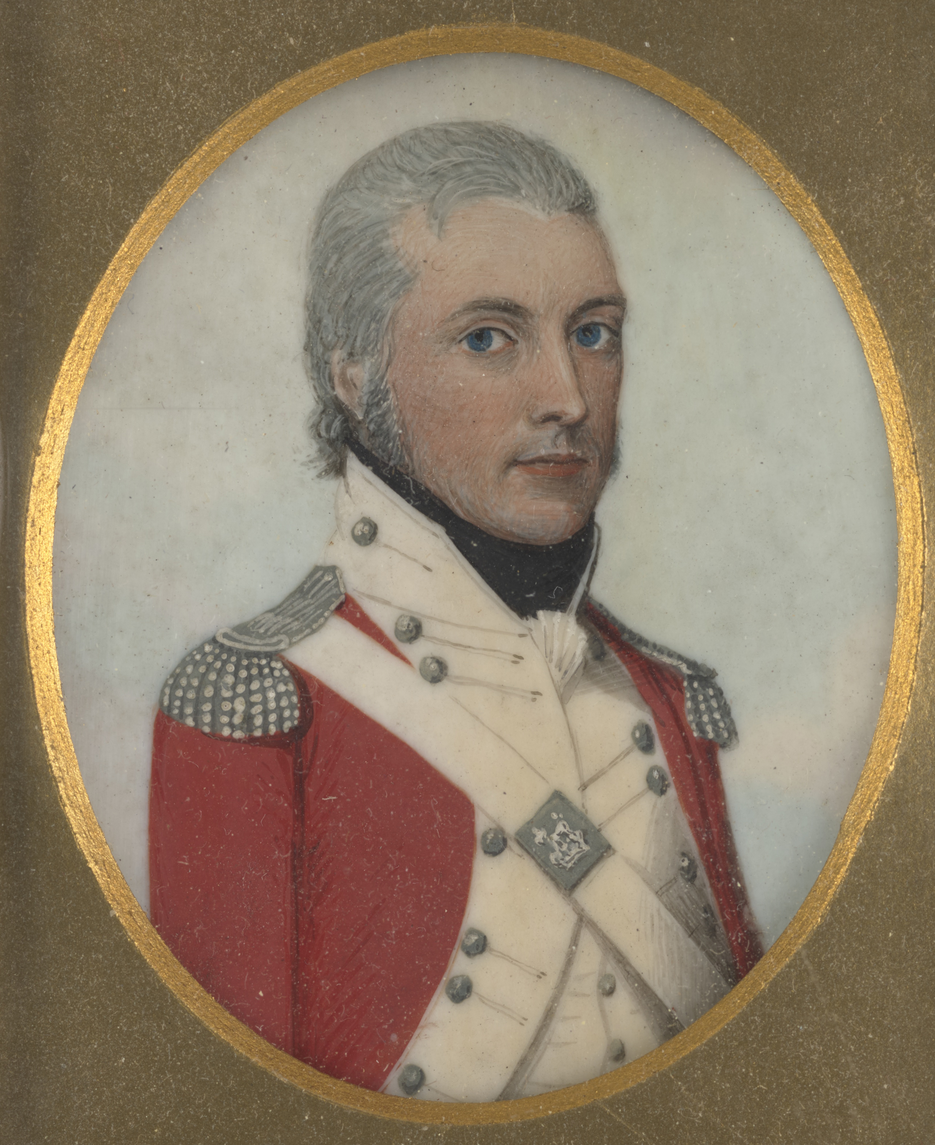 Portrait of Captain Watkin Tench (he retired as a lieutenant-general) from a contemporary miniature.